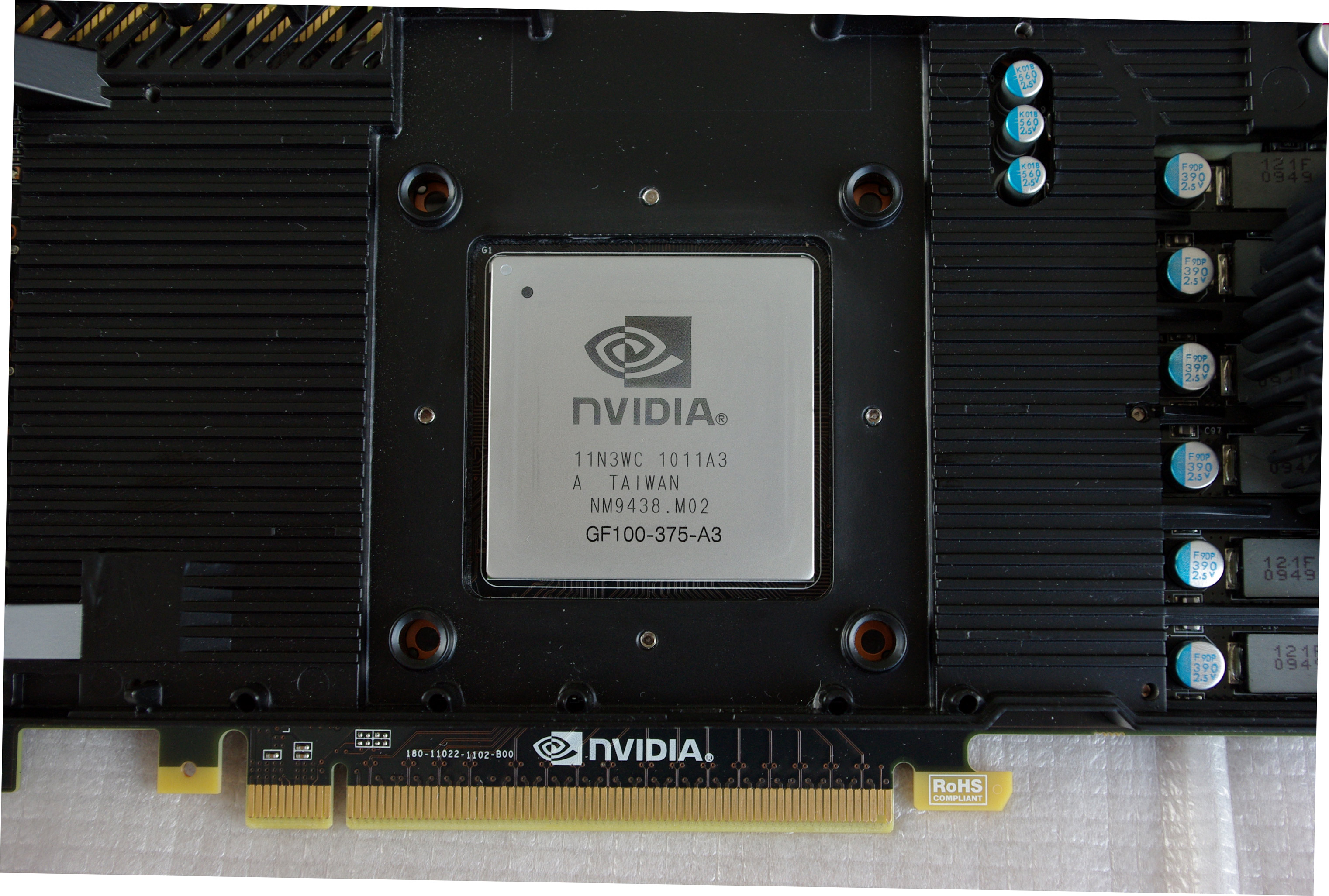 GF100 "Fermi" chip on NVidia Geforce GTX480 video card